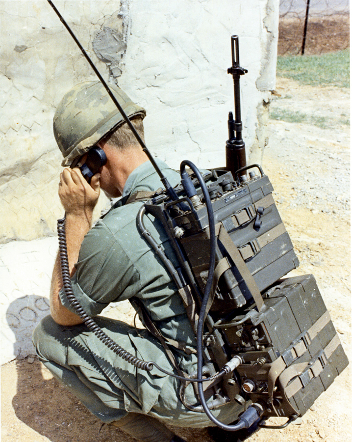 Soldier using the KY38 "Manpack," part of the NESTOR system